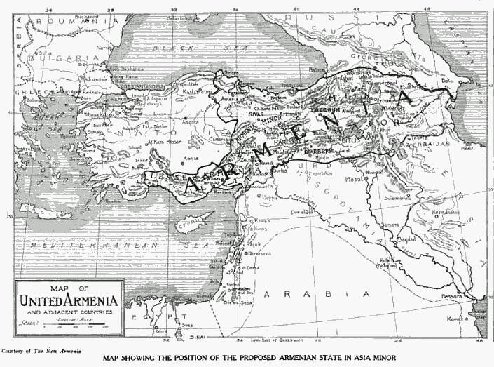 Map titled Map of United Armenia produced by the American periodical "The New Armenia" in 1917. Reproduced in "Asia: Journal of the American Asiatic Association" vol 19, 1919.